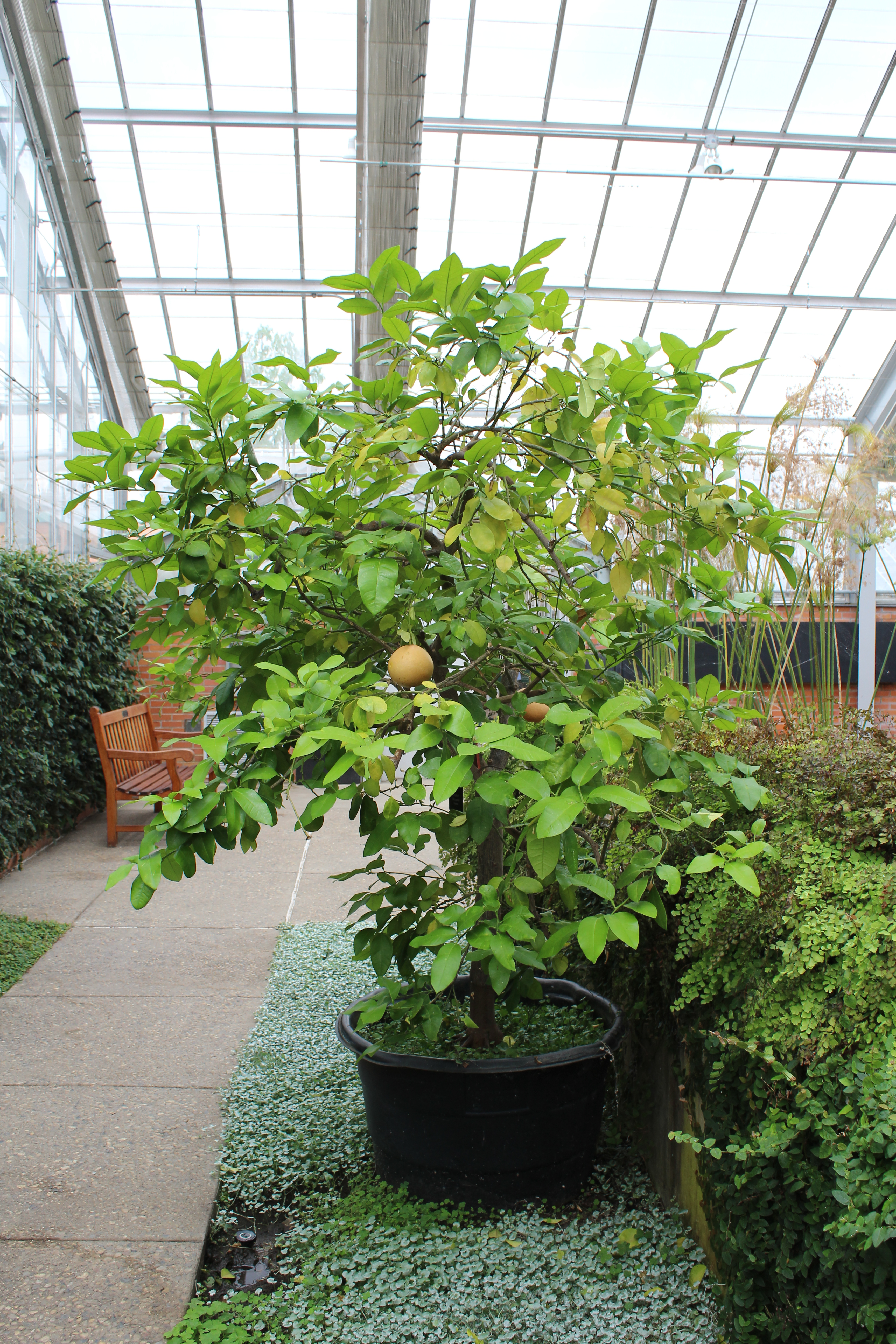 A grapefruit plant. The photo was taken at the University of Michigan's Matthaei Botanical Gardens in Dixboro.